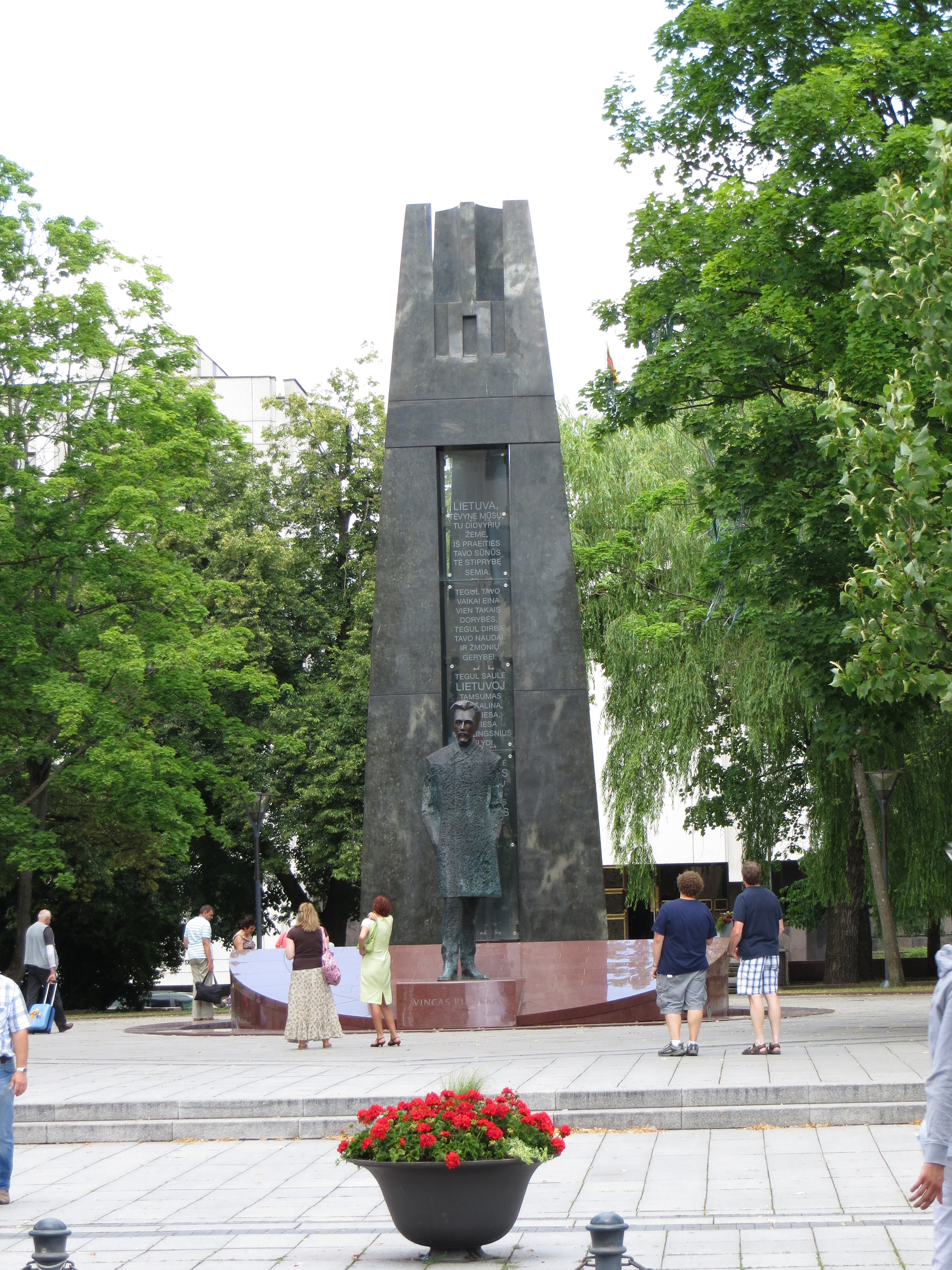 A monument to Vincas Kudirka on a square along Gedimino prospektas in Vilnius. Vincas Kudirka (1858-1899) was a Lithuanian poet, composer, publicist and physician. On 15 September 1898, Kudirka published Tautiška Giesmė (National Song) with notes in the Varpas, a monthly Lithuanian-language newspaper published during the Lithuanian press ban from January 1889 to December 1905. This patriotic poem became the national anthem of independent Lithuania in 1919. Following the restoration of independence in 1991, Tautiška Giesmė again became the national anthem of Lithuania. Today Vincas Kudirka is regarded a national hero in Lithuania.